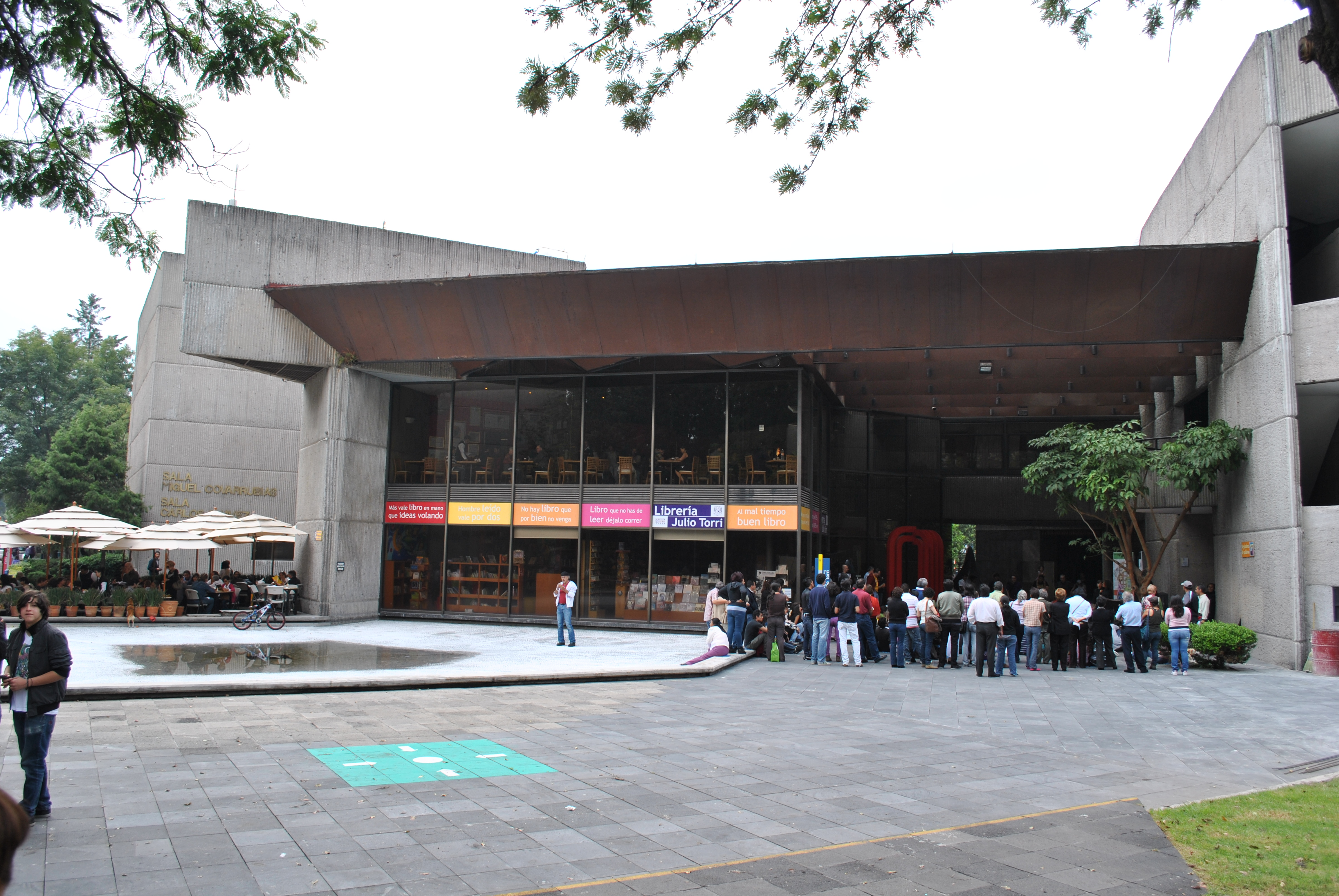 Library Julio Torri in Centro Cultural Universitario (University Cultural Center), UNAM